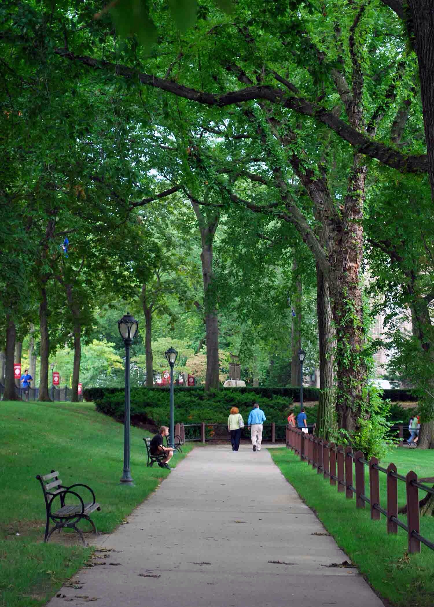 Fordham Manor, Bronx, NY, USA